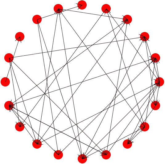 Directed Random graph, 20 nodes, probability p = 0.1, instance 3.